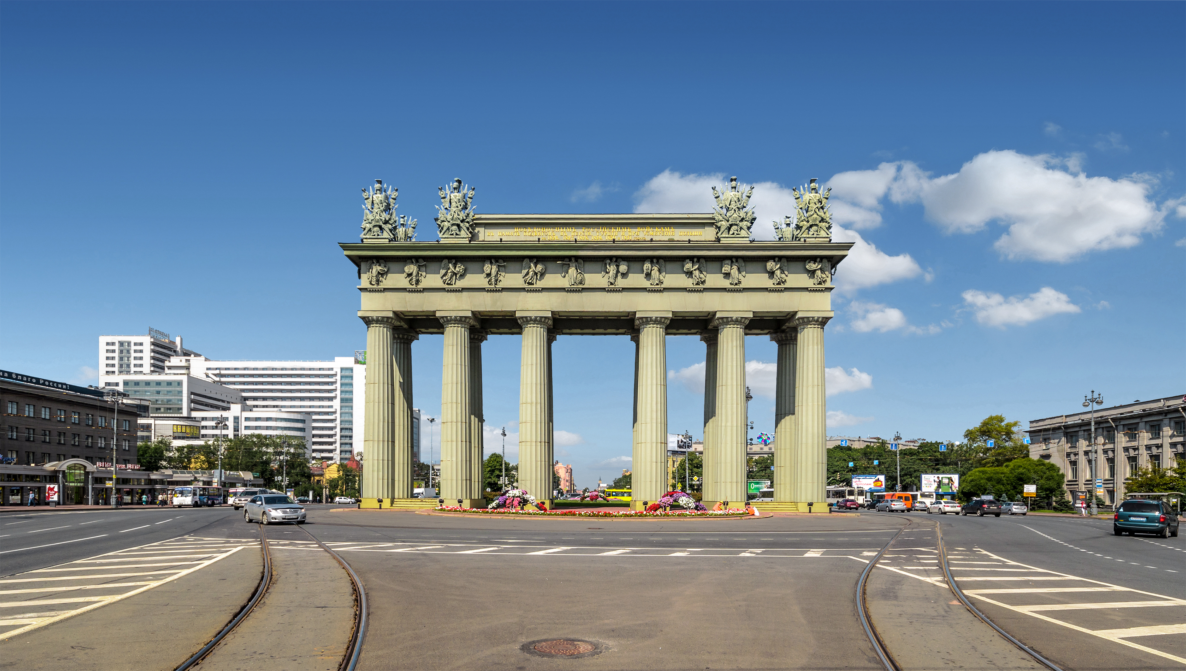 Moskovskie Vorota Square in Saint Petersburg